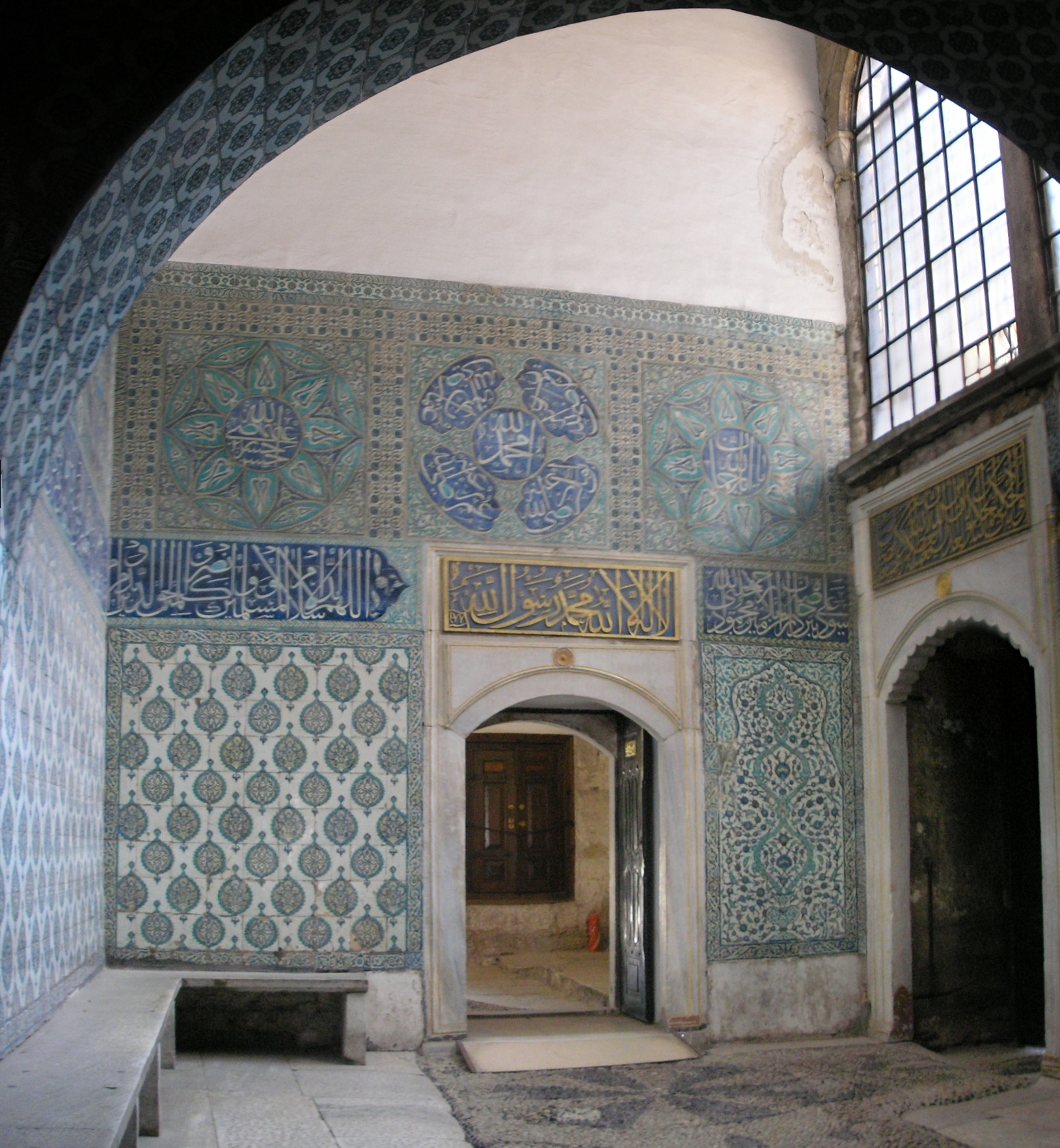 The Hall with Fountain (Ṣadirvanli Sofa) in the Topkapi Palace in Istanbul. This was renovated after a fire in 1666, and served as the entrance hall to the Harem. It was guarded by the Eunuchs This panoramic image was created with Autostitch (stitched images may differ from reality).